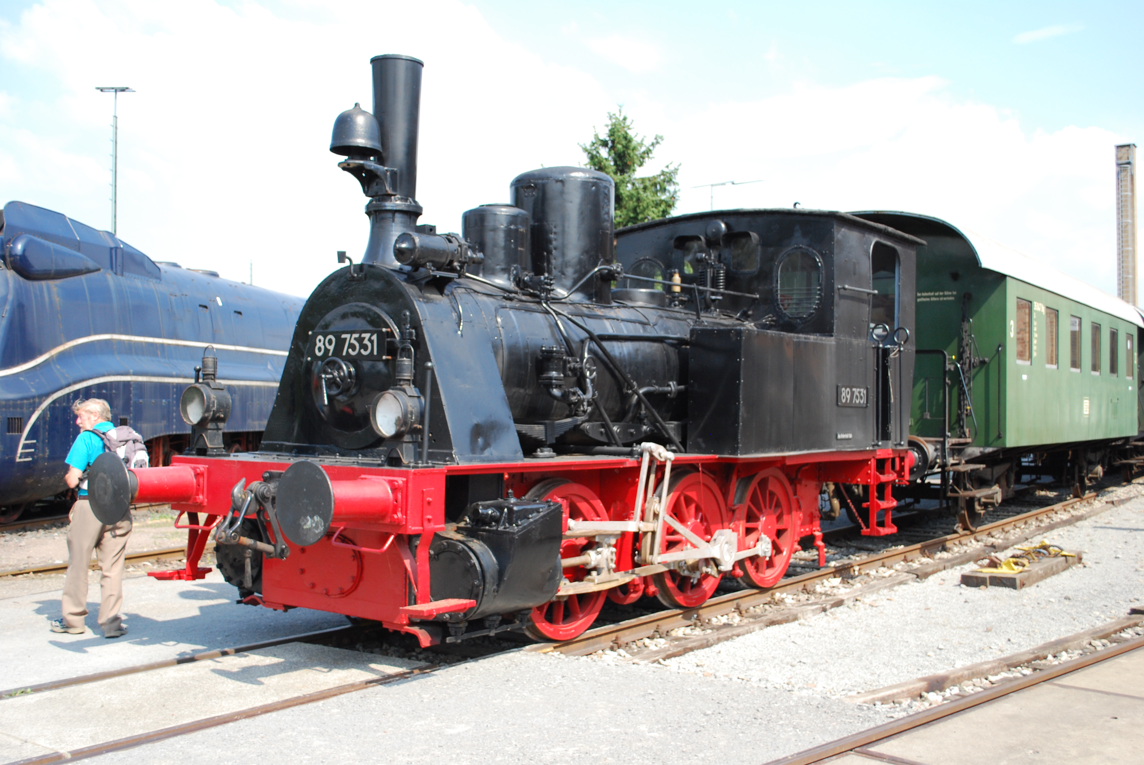 Prussian Class T3 (DRG Class 89.75) 89 7531 of the BLE (Brunswick State Railway). 1345 steam locomotives T3 were built 1878-1910: 1300+ for Prussia (DRG Class 89.70); 68 for Mecklenburg 1884-1906 (DRG Class 89.80); 15 to Oldenberg 1898-1909 (DRG Class 98.2); 29 to Brusnwick (BLE) (DRG Class 89.75) and many for private and industrial lines. The last DB loco was withdrawn 1968, the last DR one in 1967 and the last in industrial use as late as 1979. At the South German Railway Museum, Heilbronn.